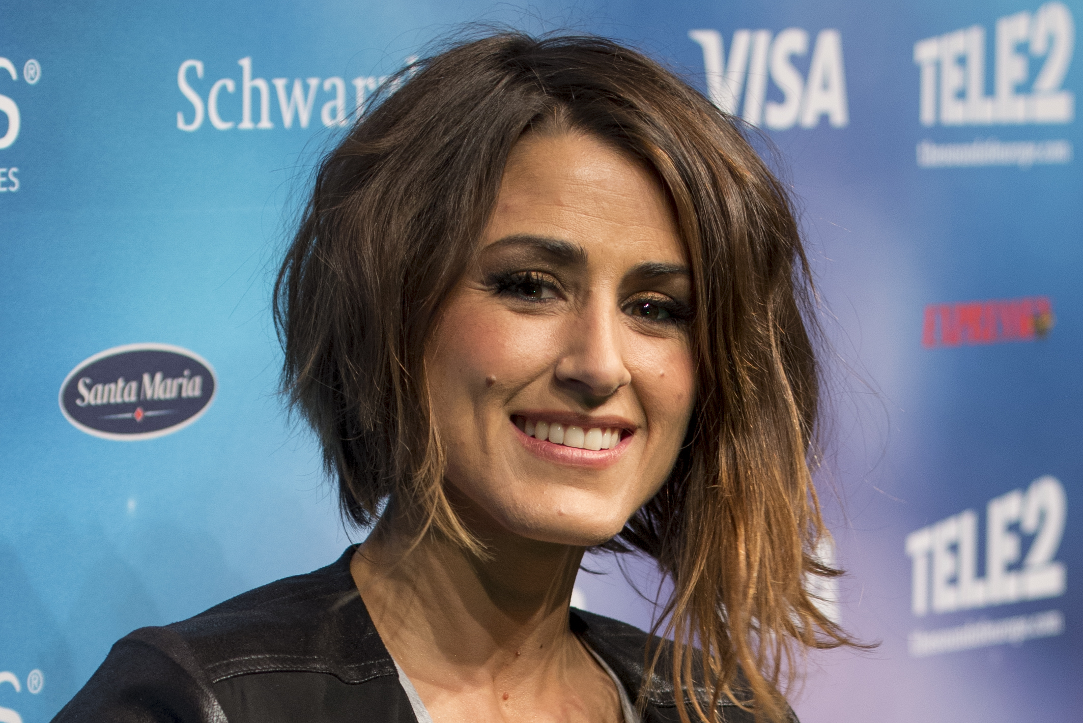 Barei at a Meet & Greet during the Eurovision Song Contest 2016 in Stockholm. (Help translate this text)